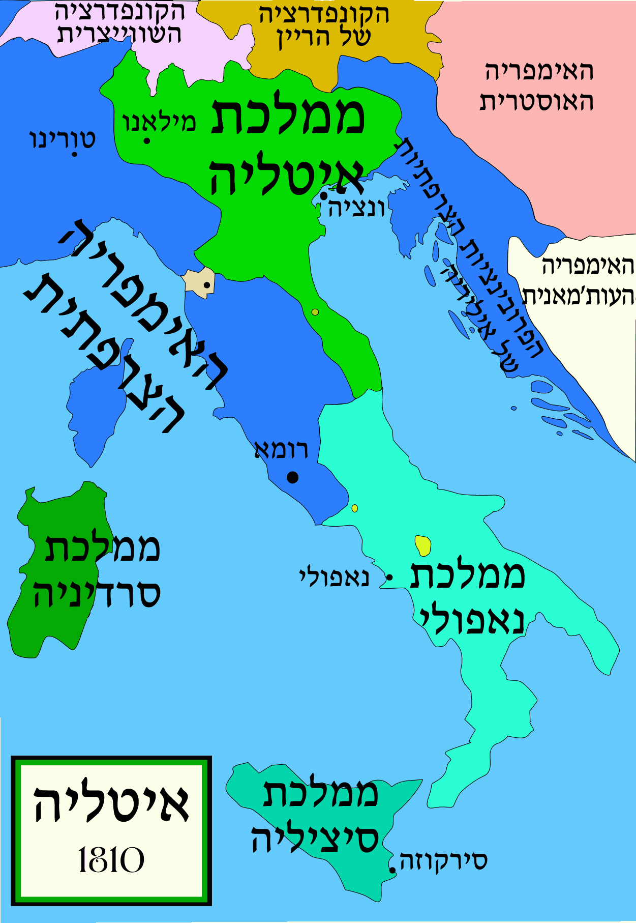 Political map of Italy in the years around 1810, during the Napoleonic era, created by MapMaster. This is a companion map to Image:Italy 1796.png and Image:Italy 1494_v2.png. An SVG version of this map (with Slovenian labels) can be found at Image:Italija_1810_Slovenscina.svg. Spanish version: File:Italy c 1810-es.png, uploaded by Aibdescalzo References Bjorklund, Oddvar; Holmboe, Haakon; Rohr, Anders (1970) Historical Atlas of the World, Barnes & Noble, NY, SBN: 389-00253-4. Other maps, including Image:1french-empire1811.jpg from the 1912 Cambridge Modern History Atlas.